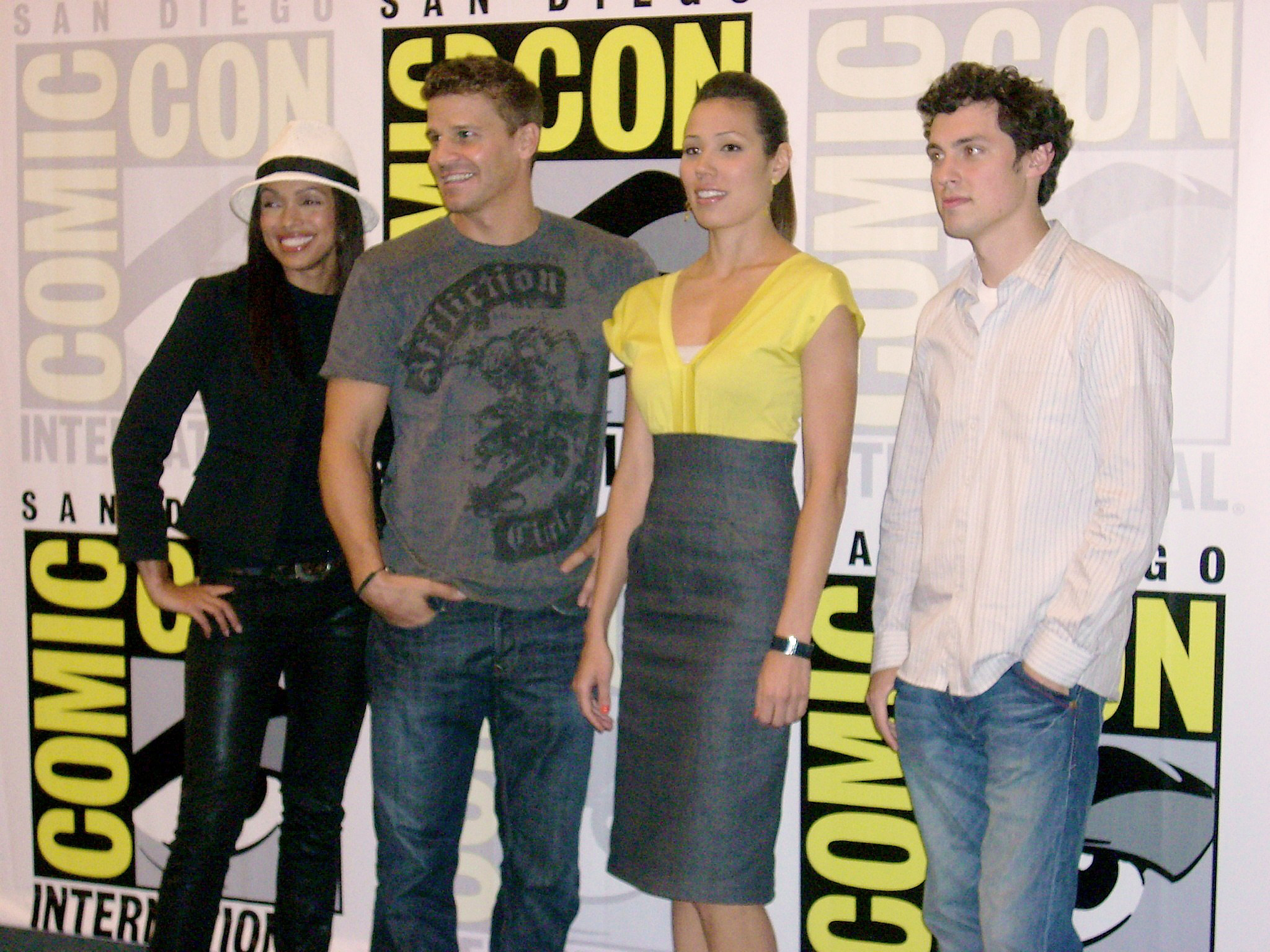 Tamara Taylor, David Boreanaz, Michaela Conlin, John Francis Daley